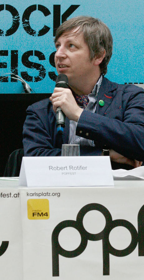 Robert Rotifer at the press conference for the presentation of the program of the Popfest 2011 in Vienna (Vienna Museum).